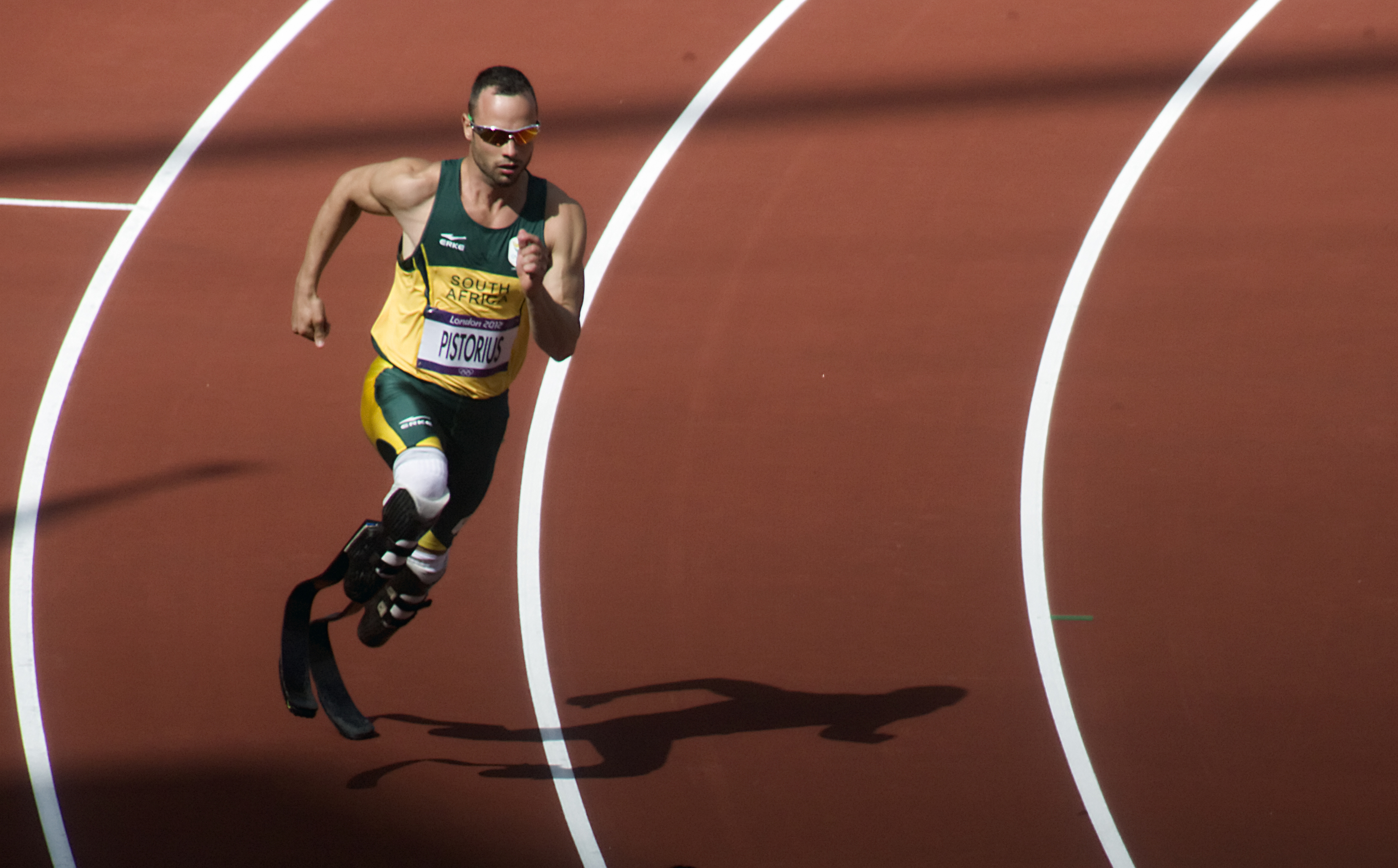 Oscar Pistorius, the first round of the 400 m at the London 2012 Olympic Games